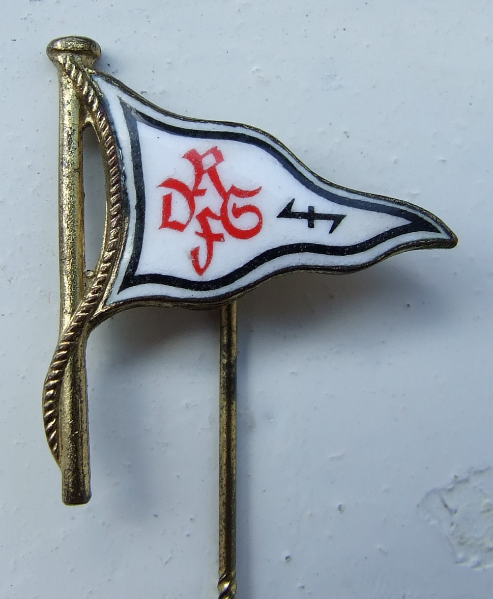 Logo of Reichsverband deutscher Guts- und Forstbeamten; ca.1920